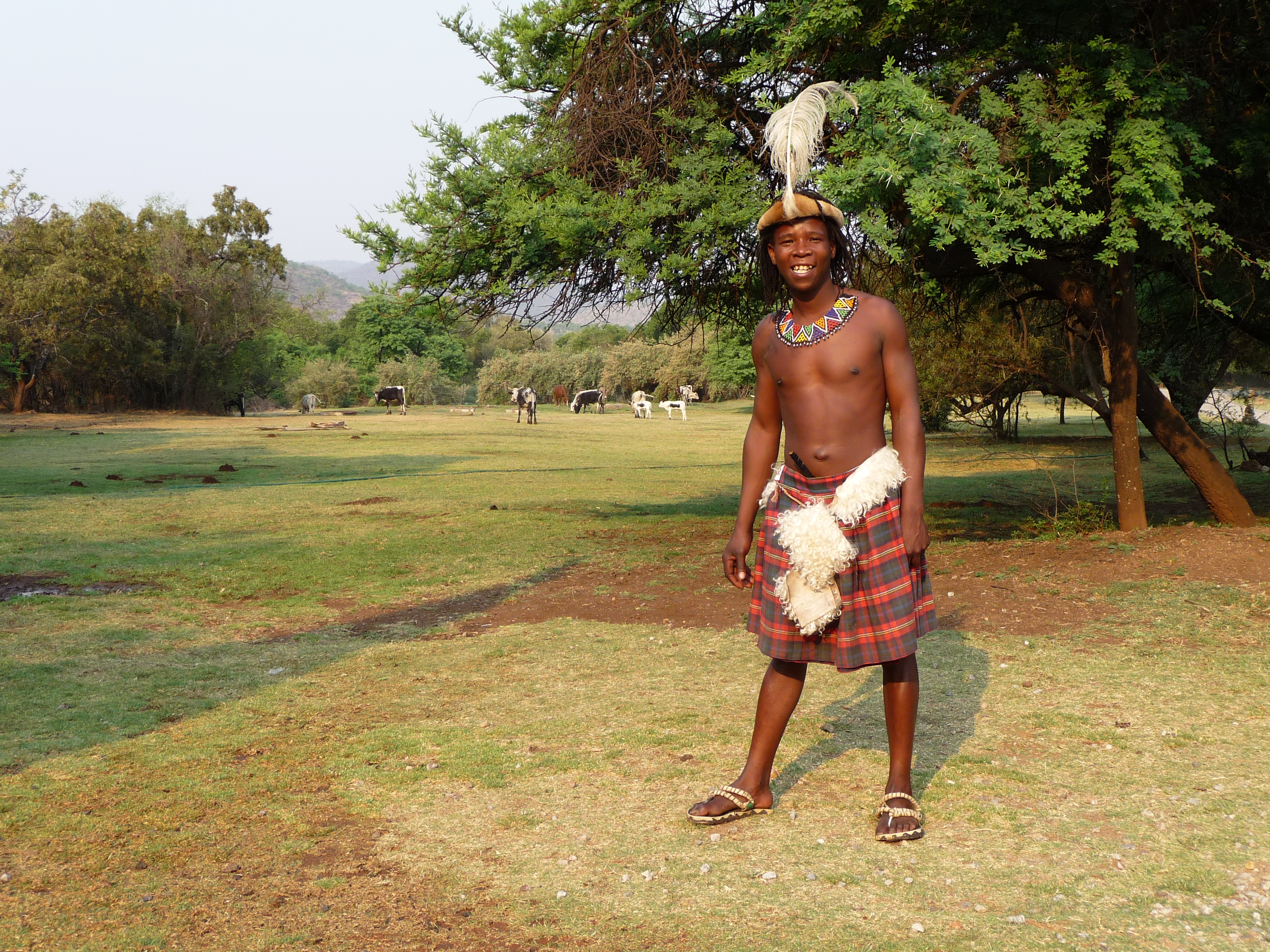 Zulu Shepherd with traditional scottish Kilt